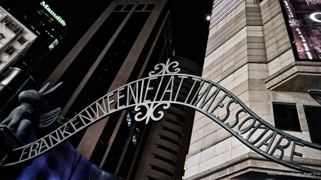 Frankenweenie @ Times Square - whatever that may mean!